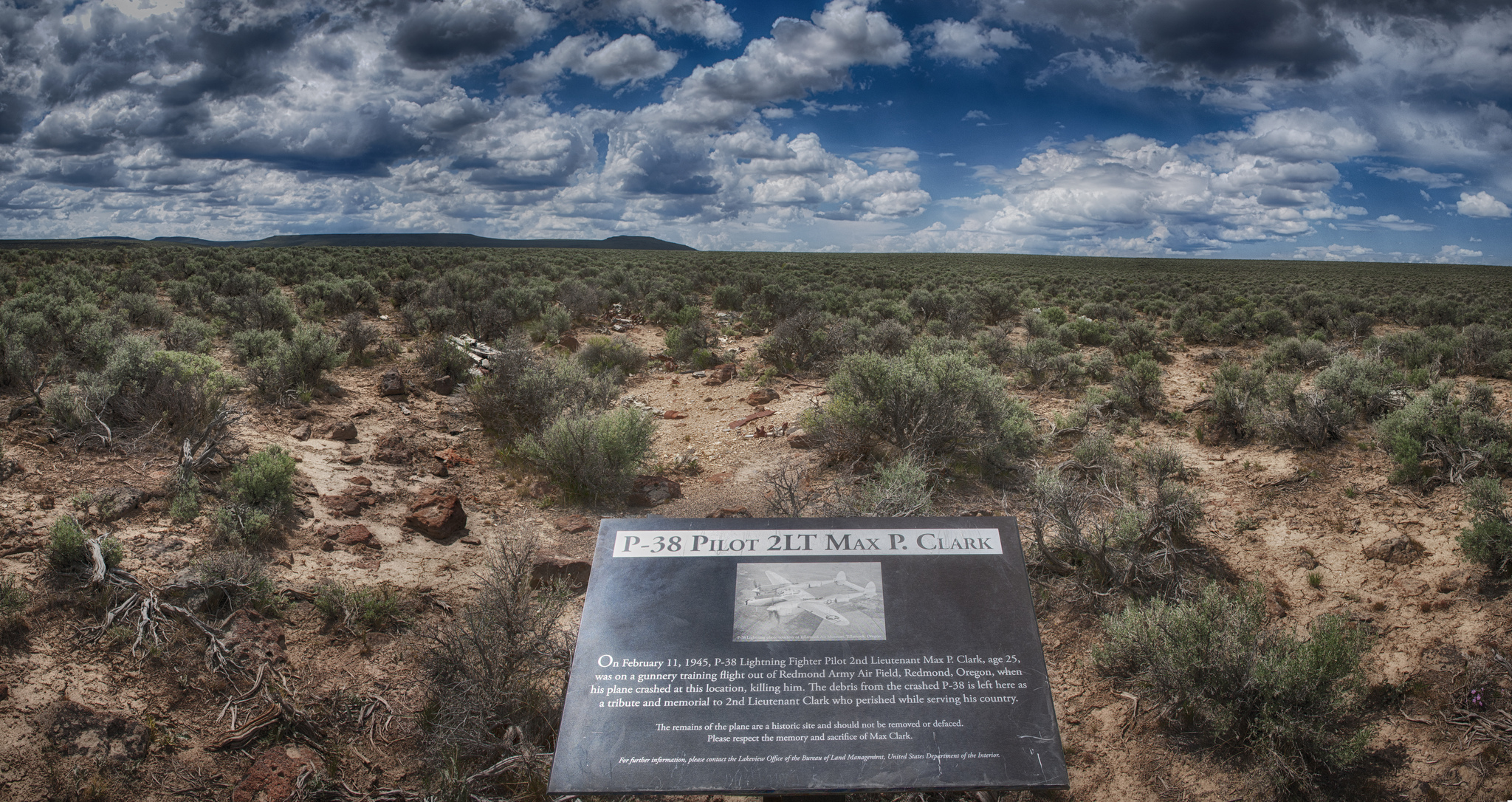 Burma Rim in southern Oregon is a veritable air crash museum. Spanning nearly 30 years, this site has witnessed two major military airplane accidents. The first, a World War II airplane, dropped out of the sky to rapidly descend two miles before hitting the ground. And then in 1973, a Vietnam-era aircraft augered in, leaving a debris field spread over three-quarters of a mile in its wake. Eerily, the two are located within one mile of each other in an Oregon desert location managed by the BLM’s Lakeview District. The first debris field contains the remnants of Lieutenant Clark’s Lockheed P-38 Lightning that went down during a gunnery training flight. The second downed plane is a Navy Grumman A-6 Intruder Bomber from the Naval Air Station at Whidbey Island, Washington. This aircraft hurtled to the ground in 1973 during a low-level night training mission. To honor these veterans, the BLM officially declared the two aircraft crash scenes historic Federal sites at a Flag Day ceremony on June 14, 2007. At the official ceremony, representatives unveiled interpretive plaques which pay tribute to the military and provide context for the historic significance of each location. Photos and story sections by Kevin Abel, BLM